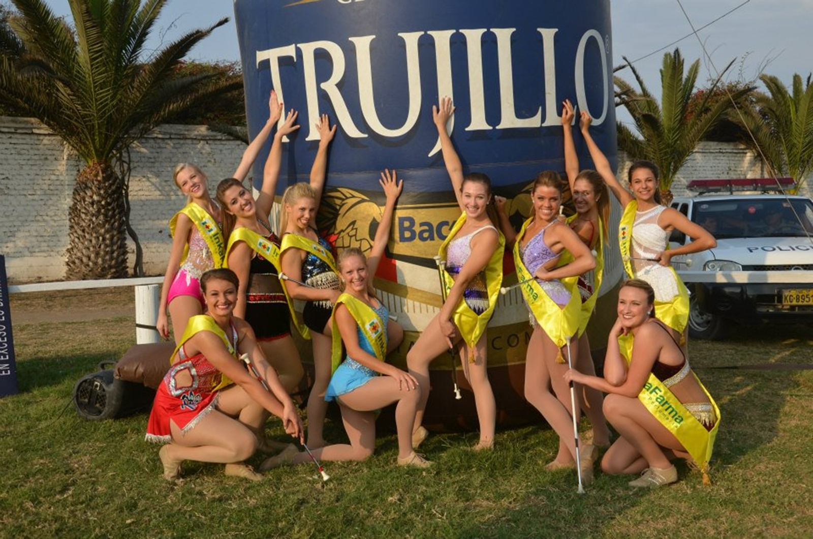 Waripolas En Victor Larco